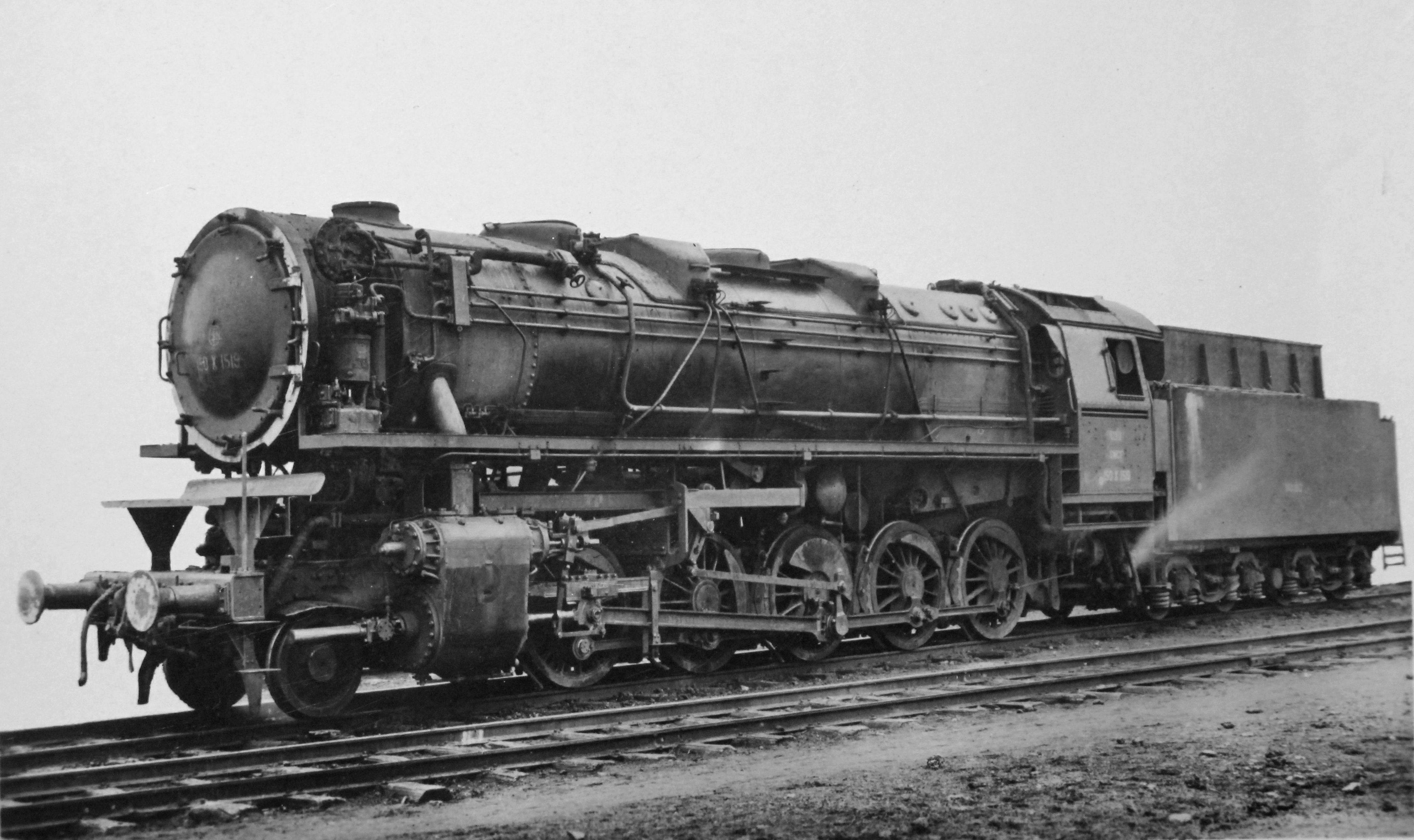 Locomotive type 2-10-0 X of SNCF